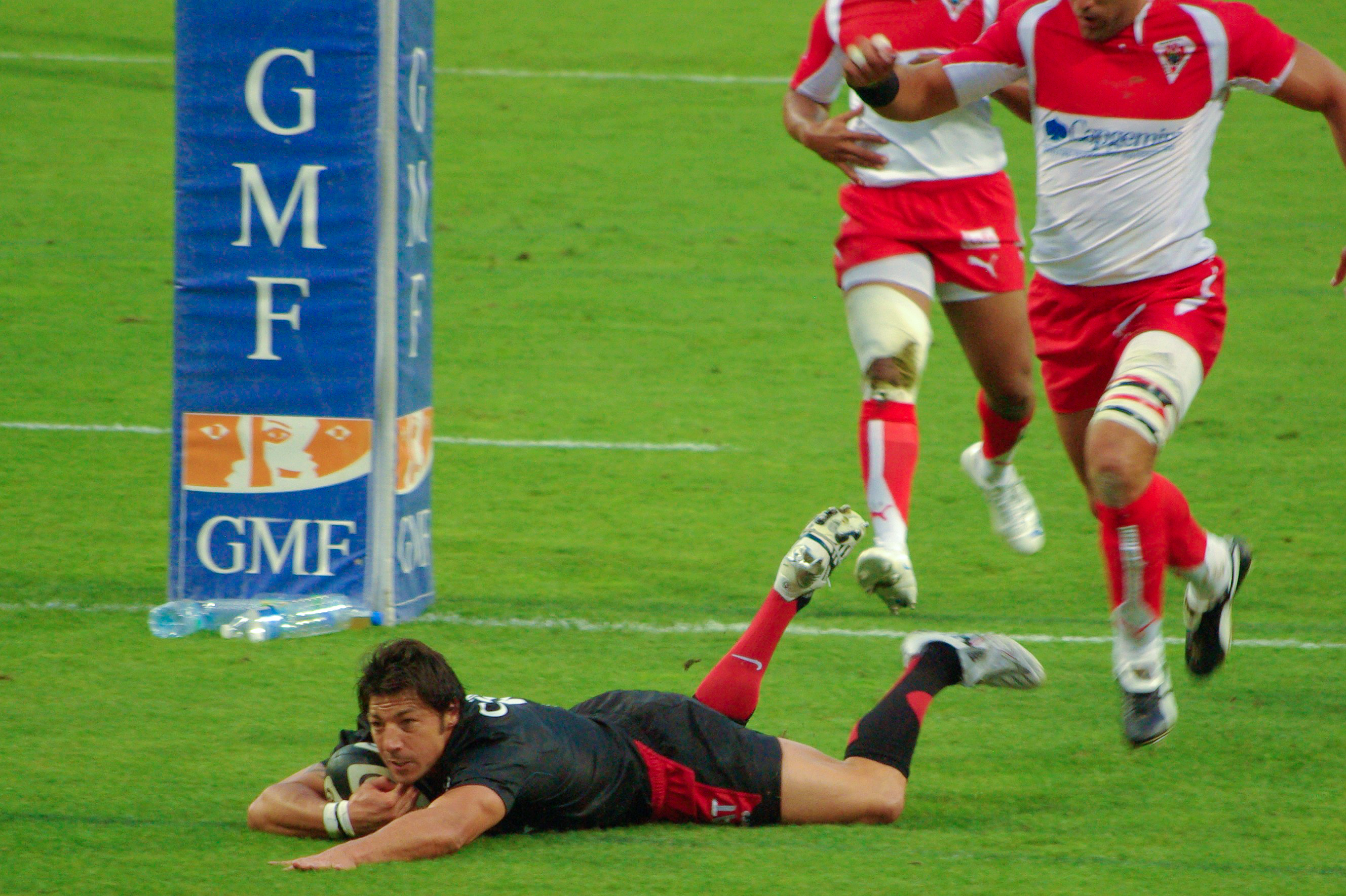 Byron Kelleher try. Picture from the rugby game Stade toulousain vs Biarritz olympique which took place in Stadium de Toulouse, Toulouse, 07/09/2008. Byron Kelleher try